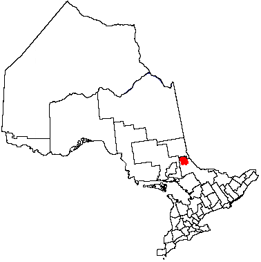 Locator map of Temagami municipality